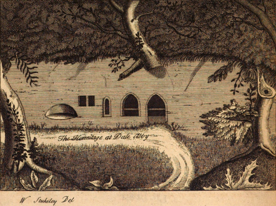 An impression of the hermitage 250m. south of Dale Abbey, Derbyshire, by the antiquary William Stukeley, c. 1724. Itinerarium Curiosum, volume 1, 1776 edition, facing p. 53.